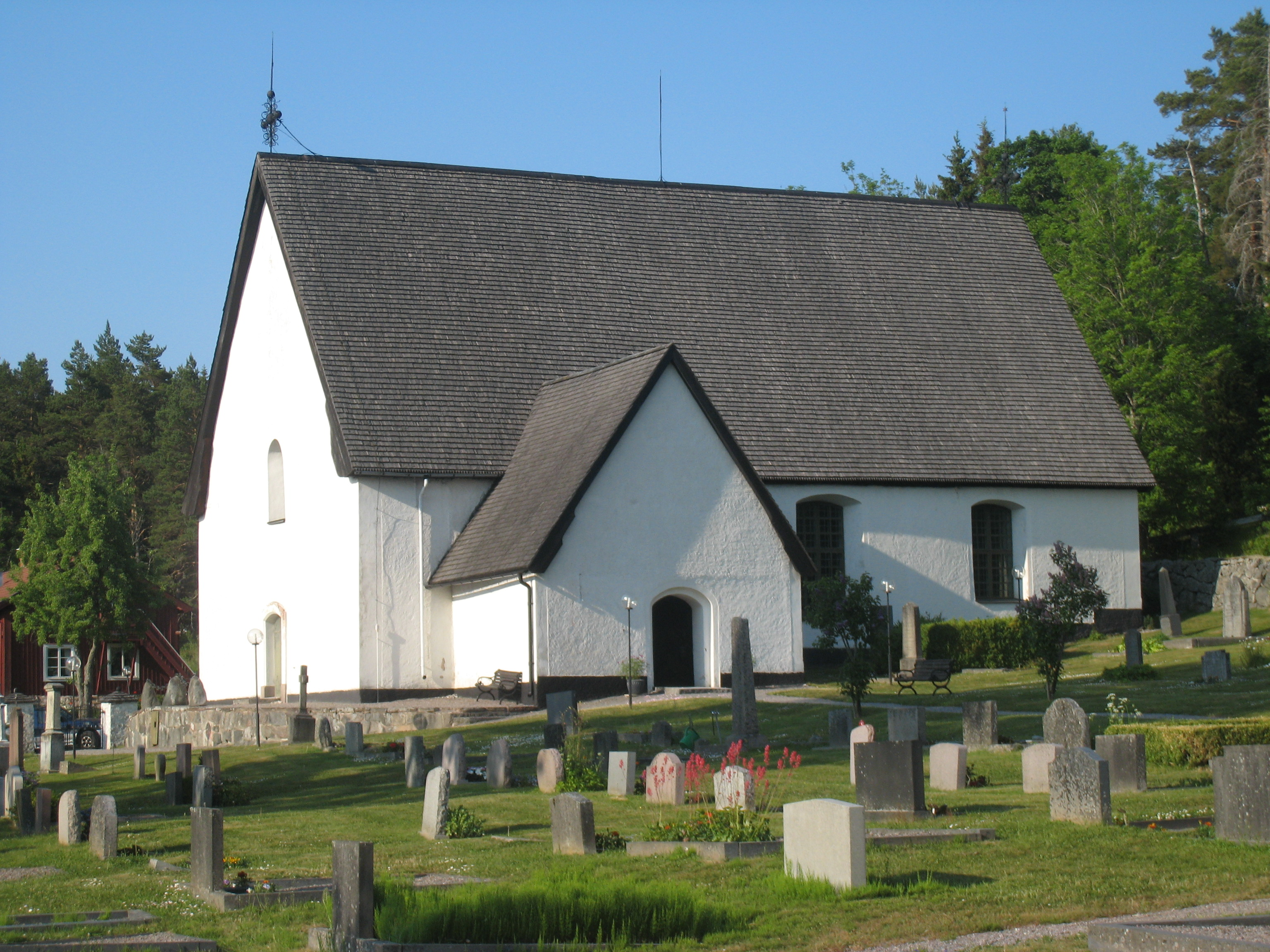 Vätö church, Norrtälje, Sweden